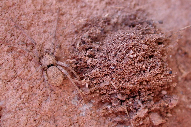 Homalonychus sp. with eggsac, Baja California.